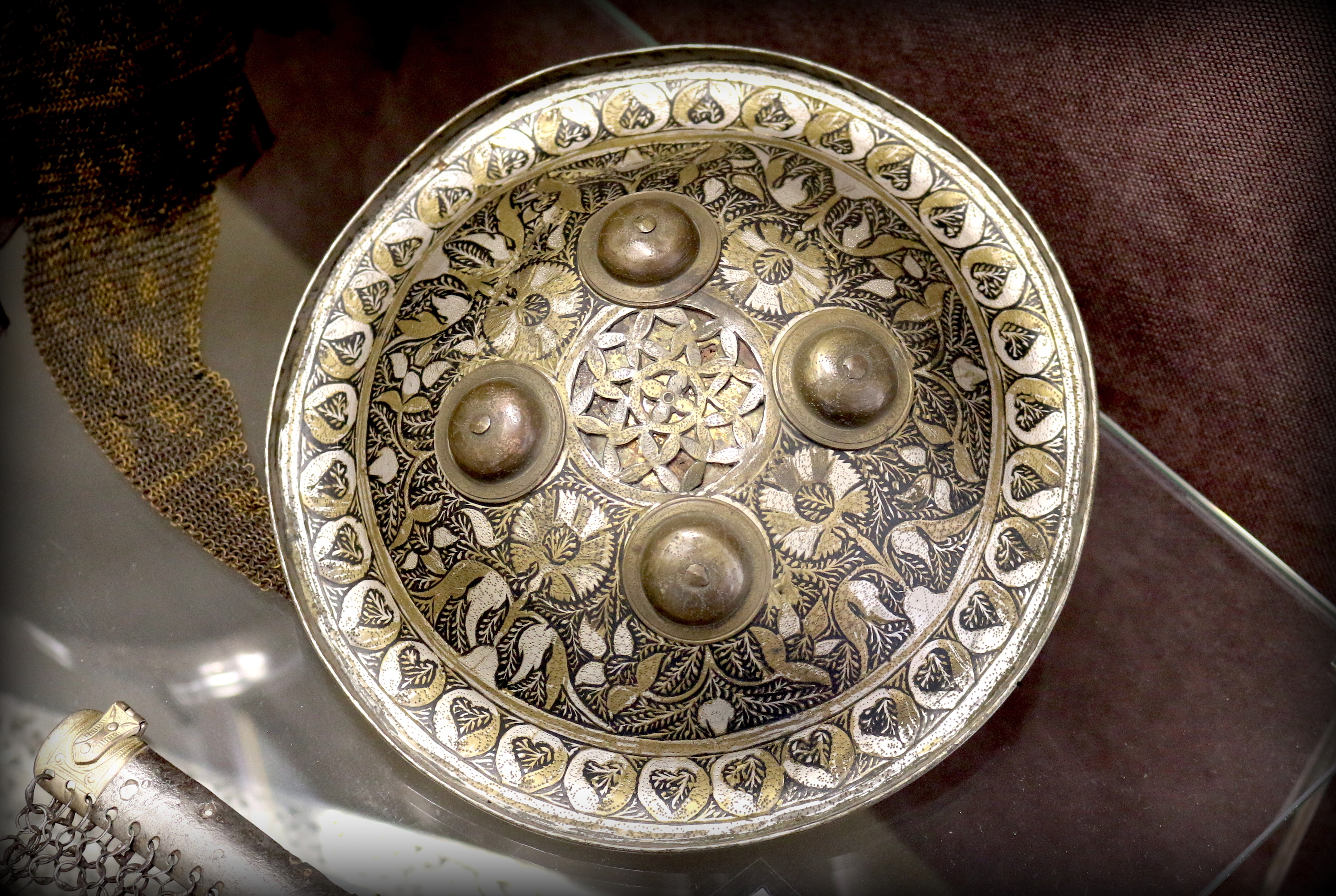 Shield from Persia (Iran), Afsharid era, 18th century - Photo: Persian Dutch Network